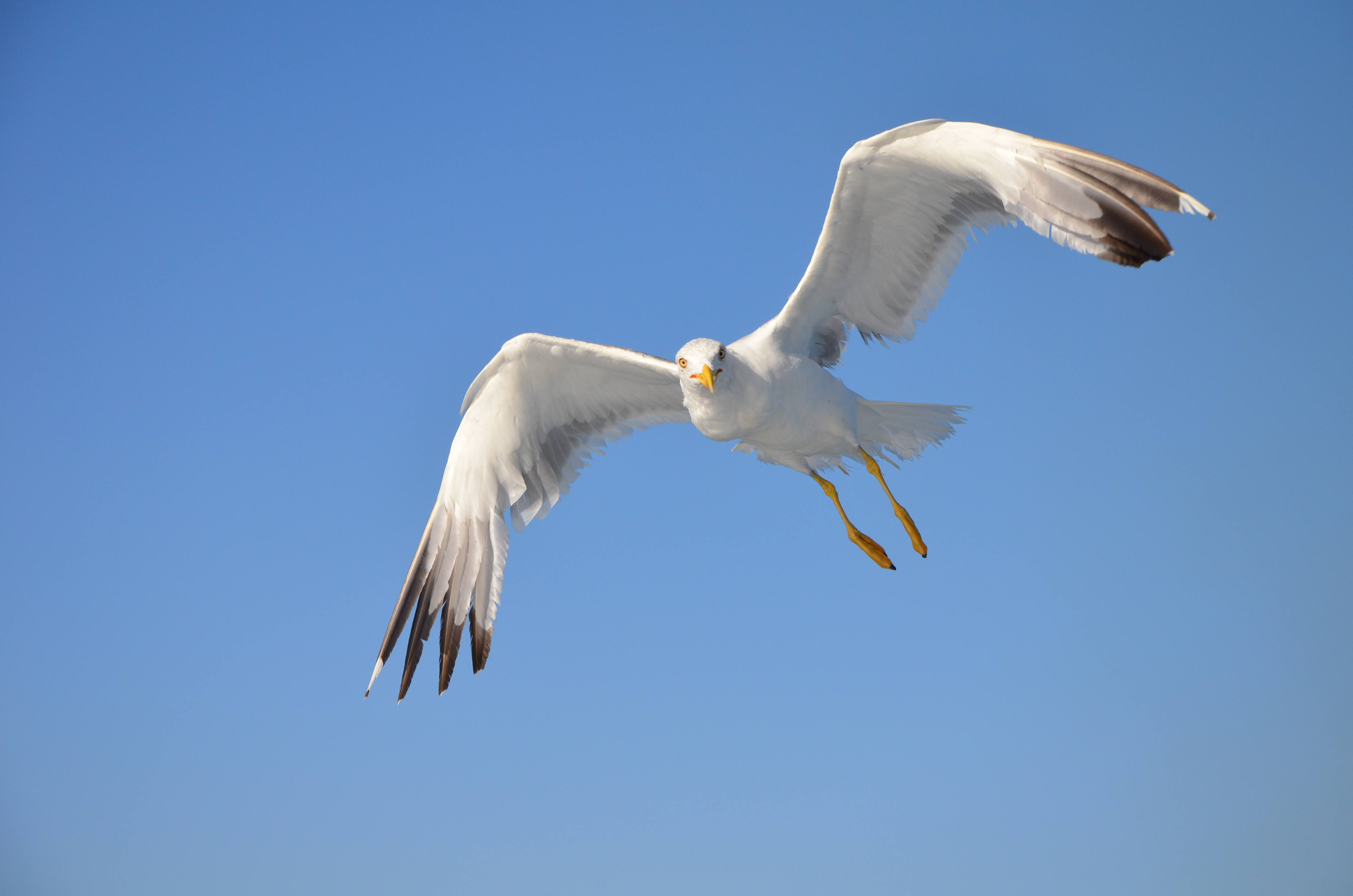 Yellow-legged Gull (Larus michahellis) in the Gulf of Olbia (Sardinia, Italy).